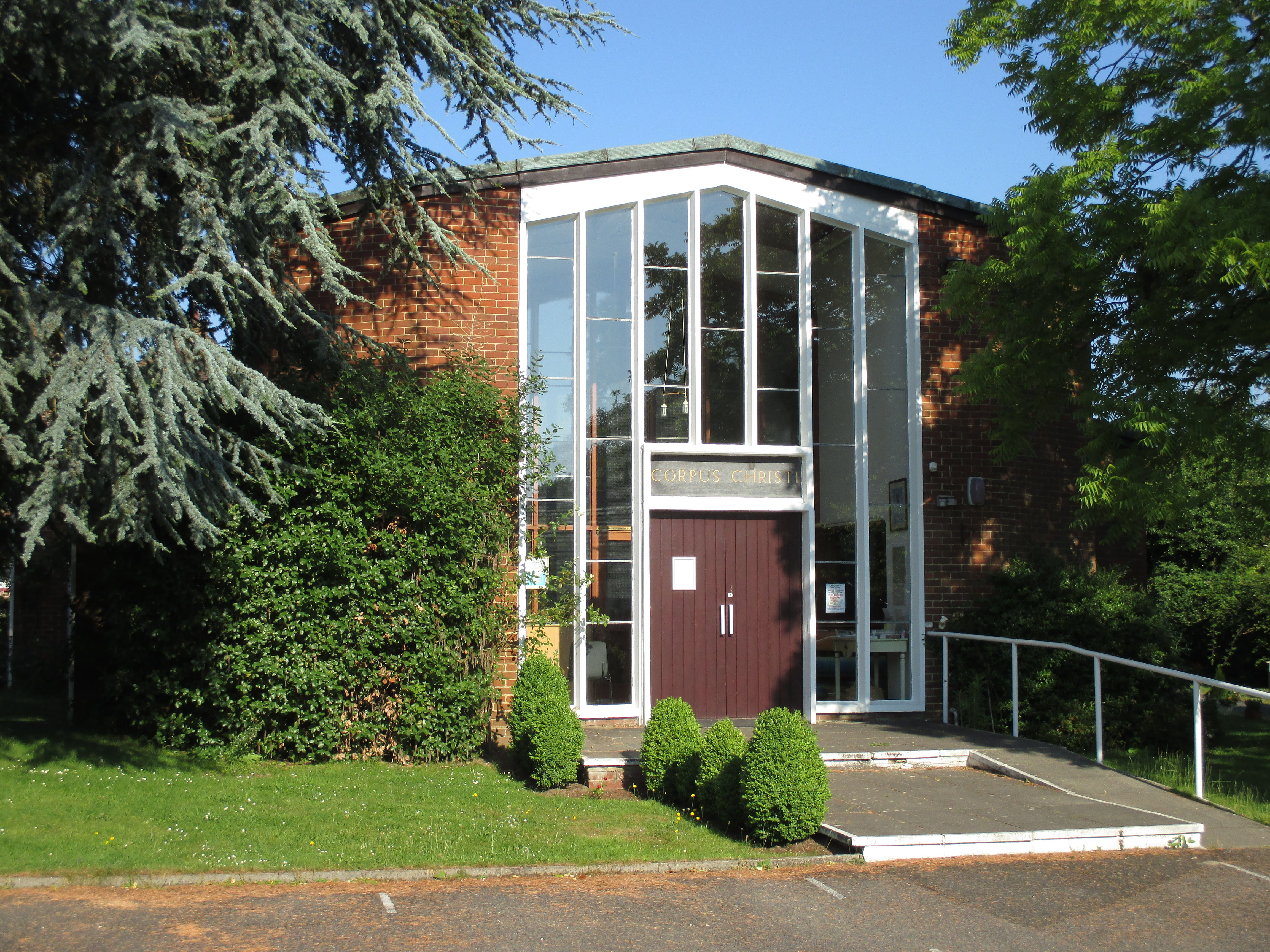 Corpus Christi Church, Henfield, West Sussex, seen from the east.